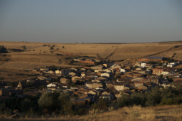 Suumer sunrising at Manzanal del Barco